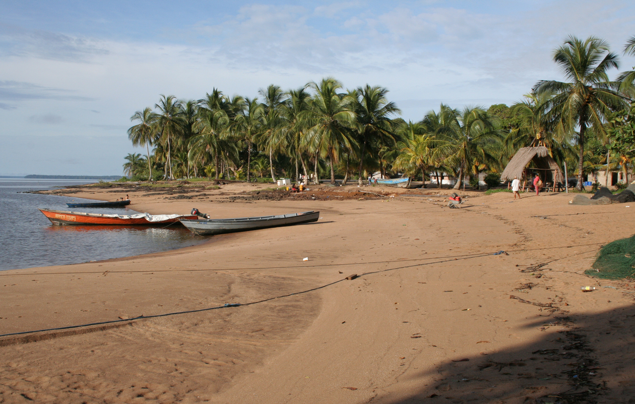 Galibi, Langmankondre, Suriname, indian village and nature reserve